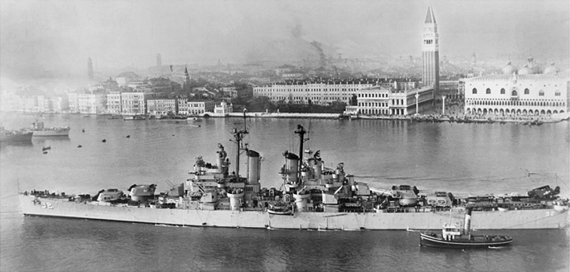 The U.S. Navy light cruiser USS Little Rock (CL-92) entering Venice, Italy, in 1948.